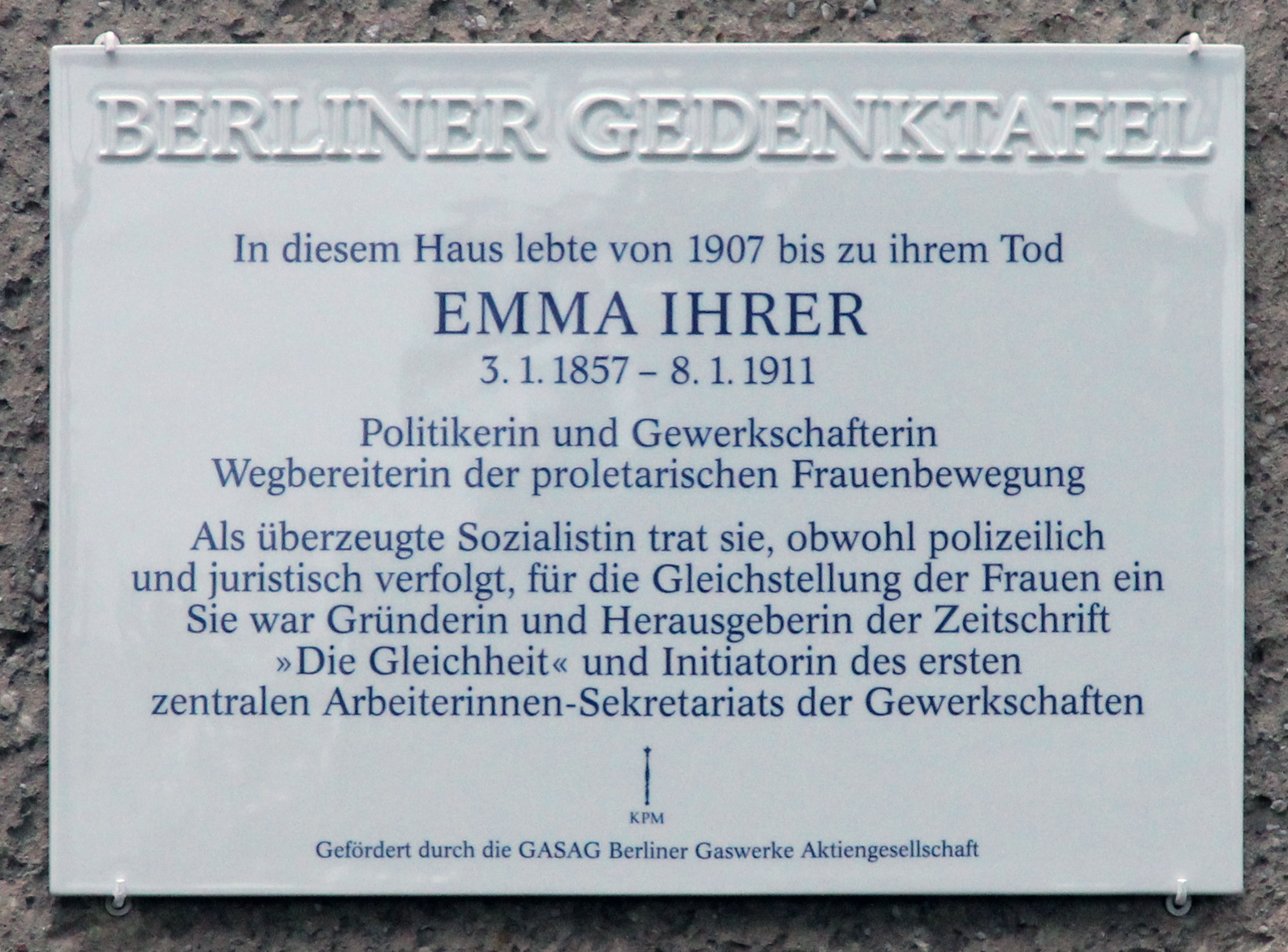 Berlin memorial plaque, Emma Ihrer, Marthastraße 10, Berlin-Niederschönhausen, Germany